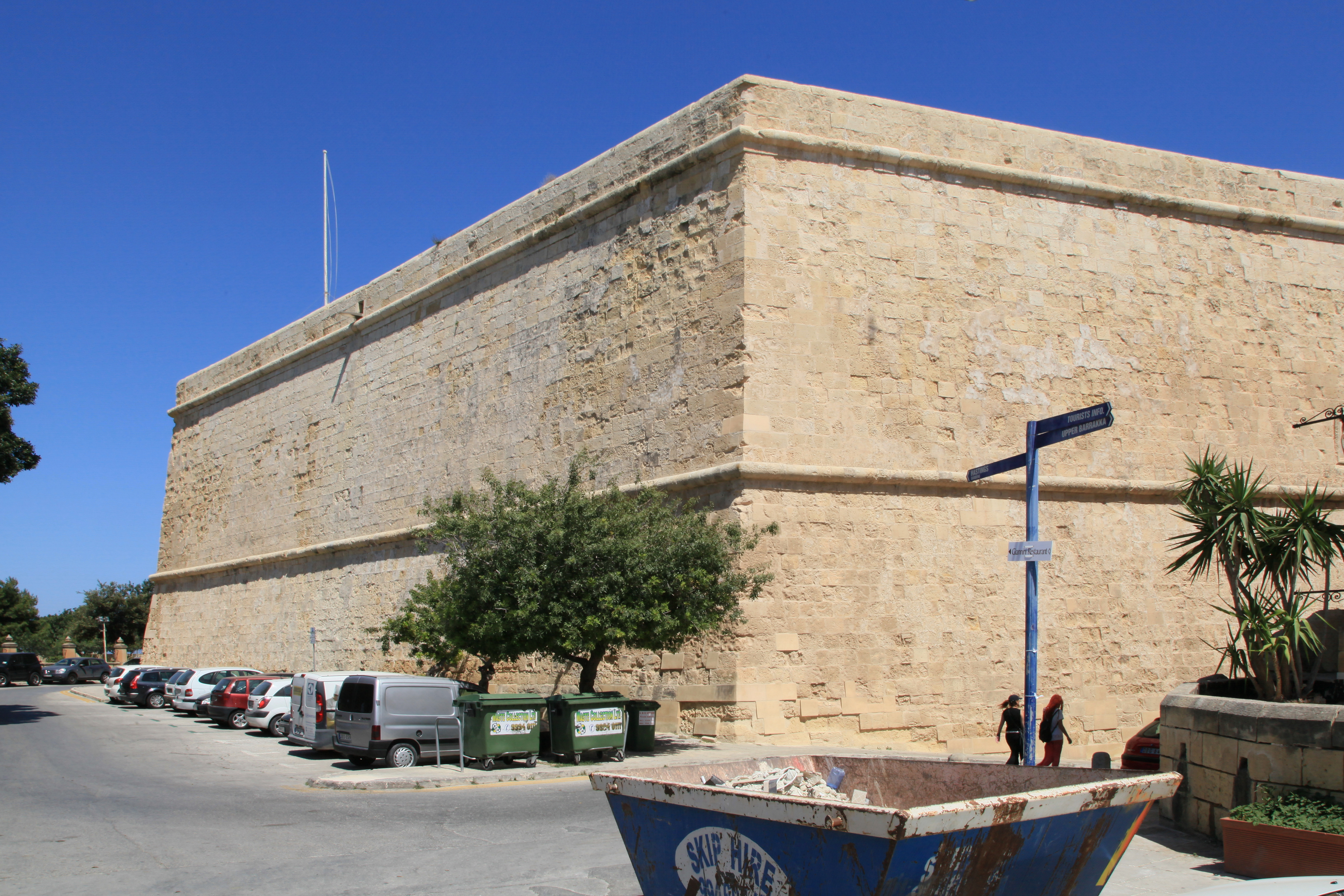 Triq il-Papa Piju V with St. John's Cavalier in Valletta, Malta